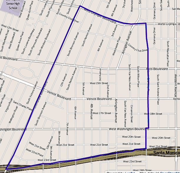 Map of Arlington Heights, California, as delineated by the Los Angeles Times Other information Boundary map as drawn by the Los Angeles Times on a CC-by-SA background. Note at bottom right of map on the L.A. Times website noted above says "CC-by-SA" (which gives permission to use the map). There is a link there to which explains the meaning thereof. The base map is credited to The Times spells all this out at